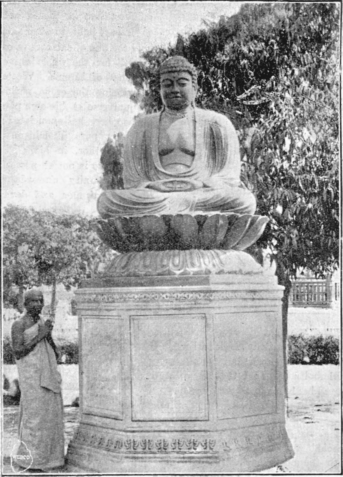 Buddha statue and Theravada monk in the Jubilee Park (= Jubilee Baug) of Baroda (= Vadodara).